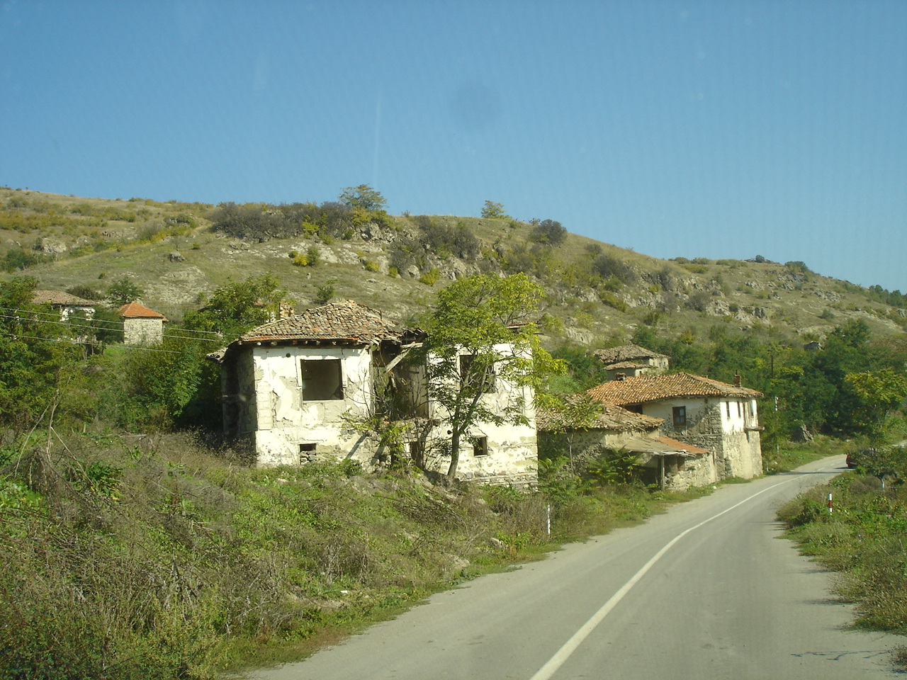 Mechkuevci village in Ovche Pole region, near Sveti Nikole, Macedonia